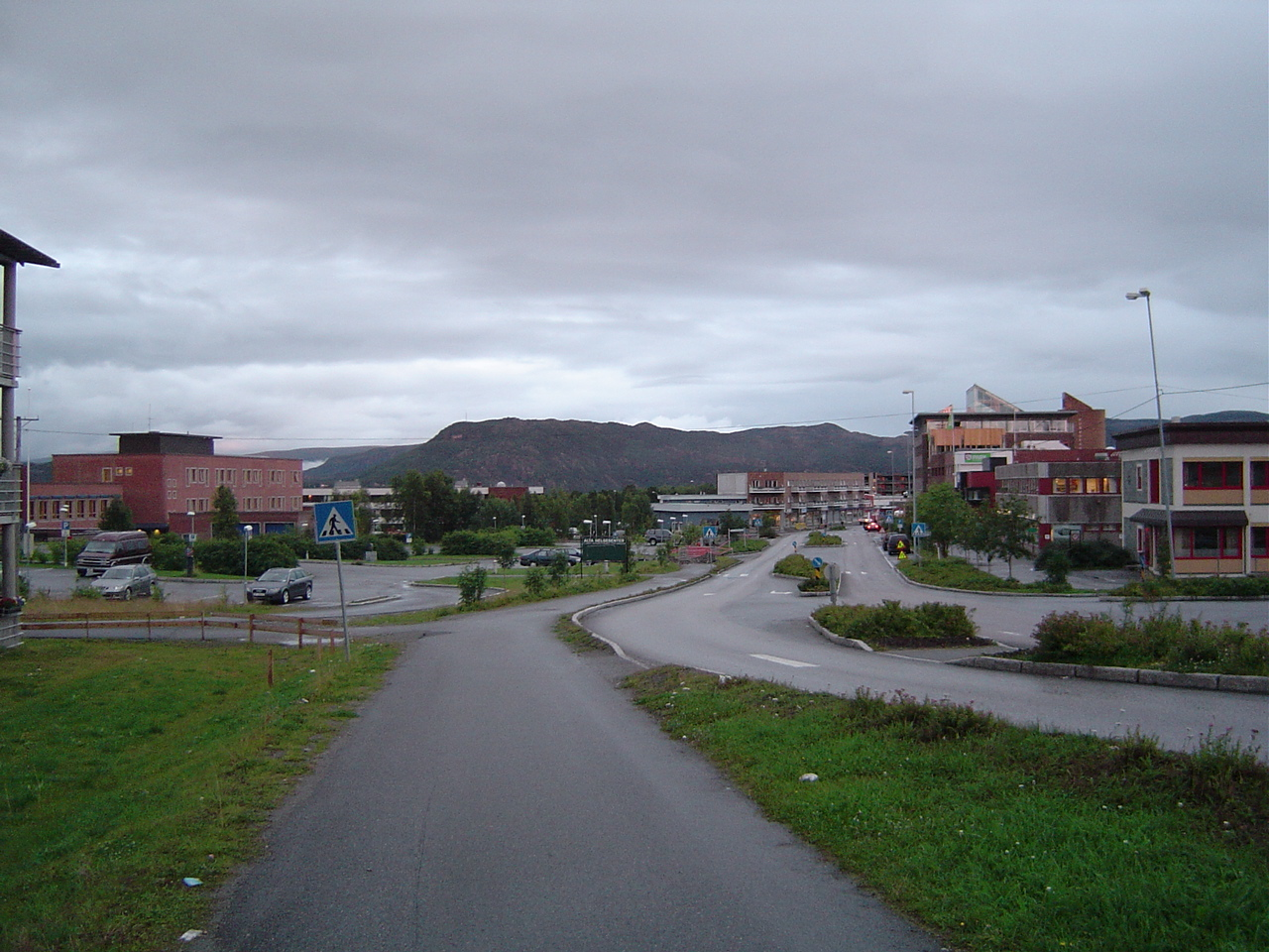 Center of the town Alta, Norway